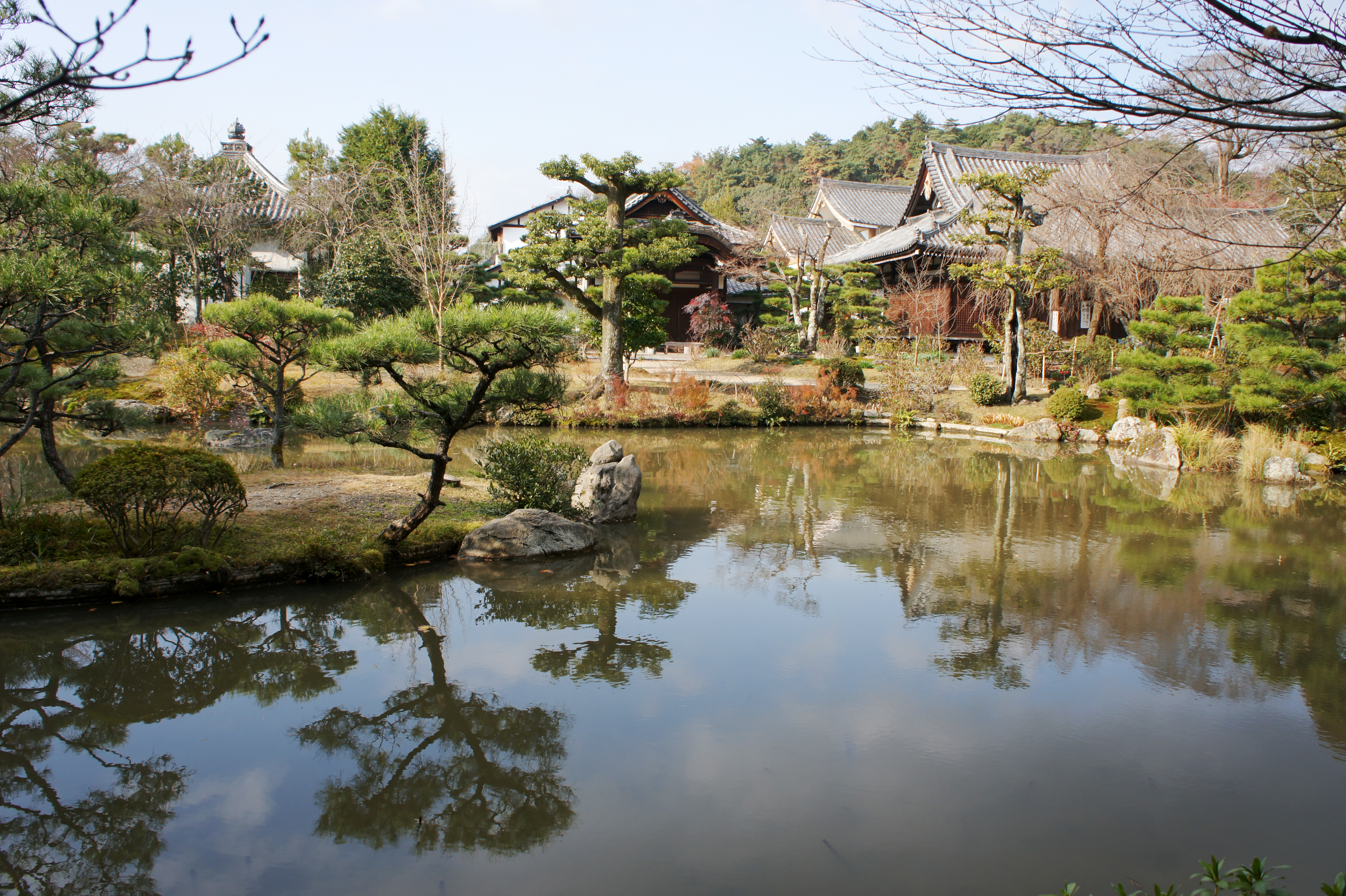 Hōkongō-in in Ukyō-ku, Kyoto, Kyoto Prefecture, Japan. Seijo-no-taki of Hōkongō-in Garden that is an extremely important cultural asset of Japan "Special Places of Scenic Beauty"